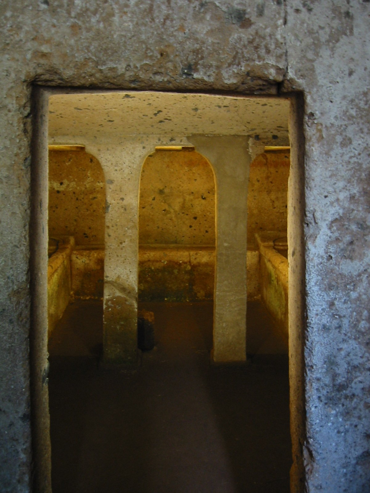 A Burial Chamber in the etruscan necropolis of Banditaccia near Cerveteri in Lazio, Italy.